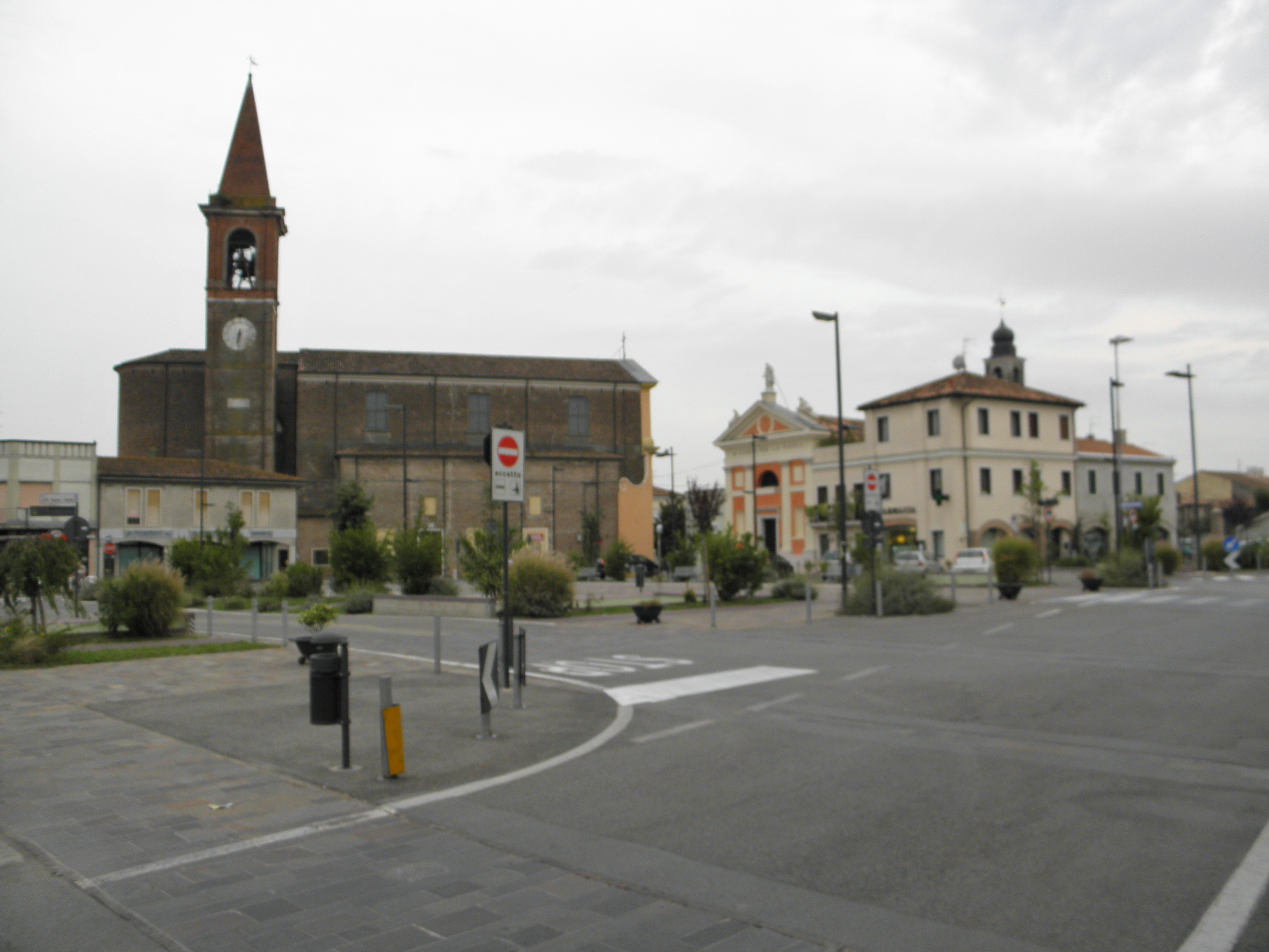 San Giovanni Battista square, Costa di Rovigo. View from San Rocco square.